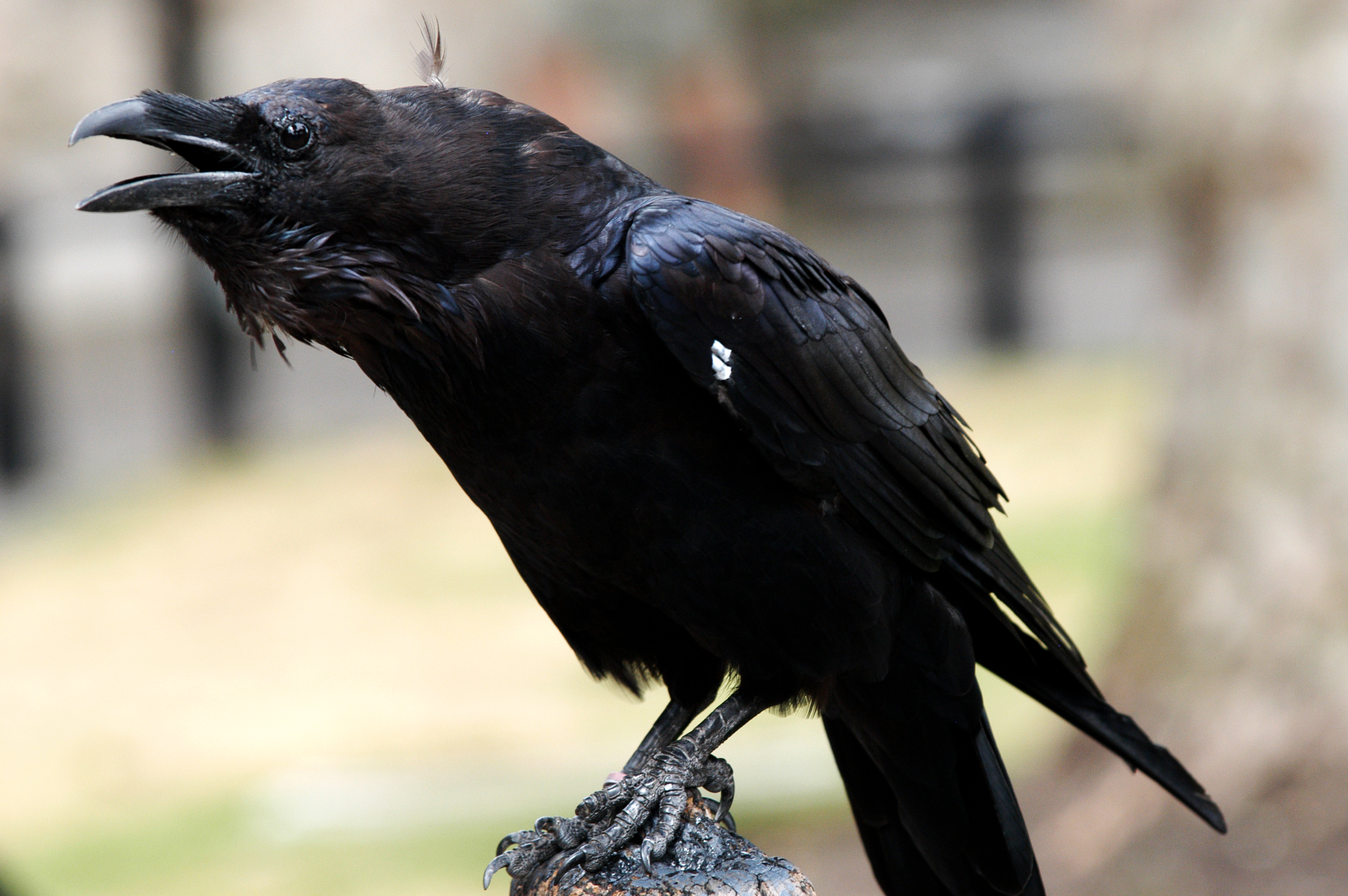 A Common Raven at the Tower of London, London, England.